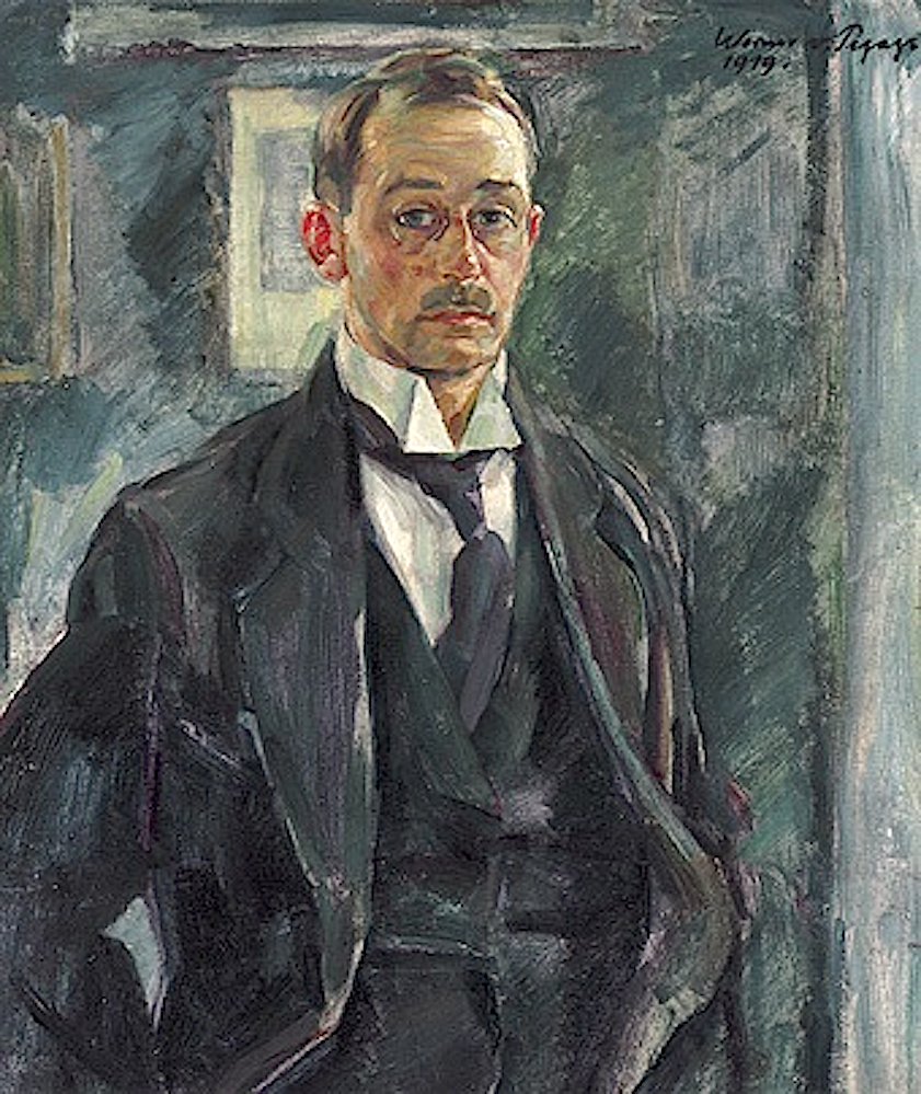 German artist Werner von Pigage. Self portrait.